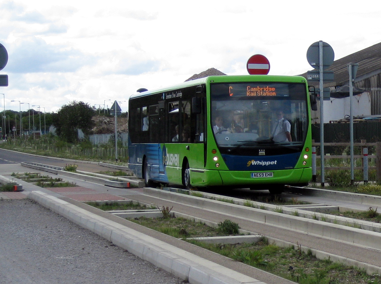 Go Whippet bus (reg. AE59 EHR) branded for and operating Cambridgeshire Guided Busway route C, on the first day of public services.